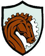 The emblem of 1. Infantry Brigade Combat Support Battalion (stationed in Tapa)